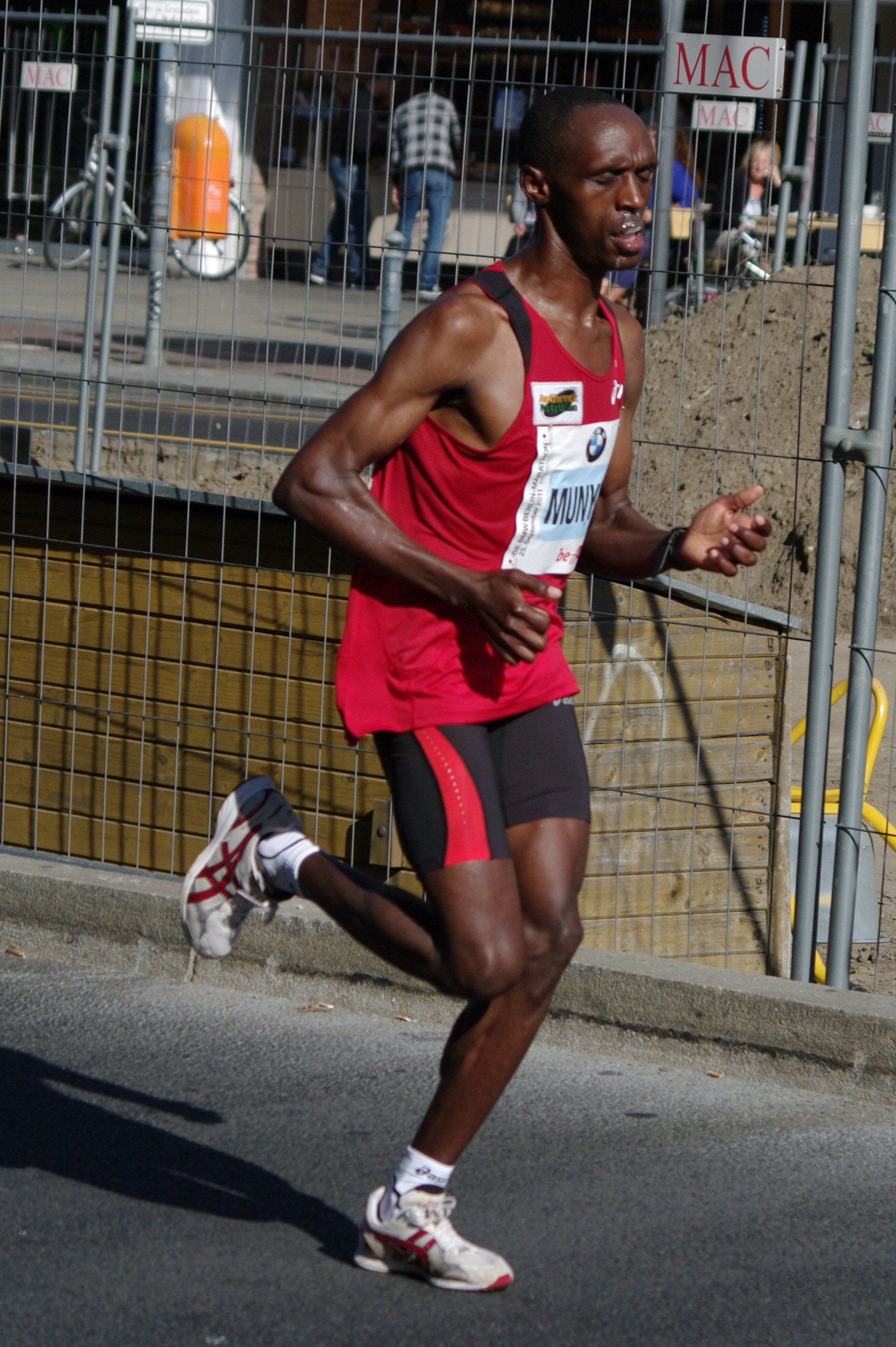 Simon Munyutu, Berlin Marathon 2011 at km 35, Tauentzien